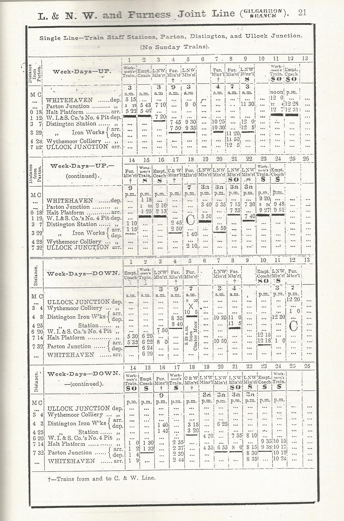 Internal working timetable of a long closed railway line run by a long closed company